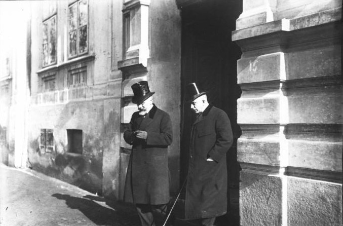 The Greek Prime Minister, Eleftherios Venizelos, and the Greek ambassador to Serbia, I. Alexandropoulos, exit the Serbian Ministry of Foreign Affairs in Belgrade, 1913